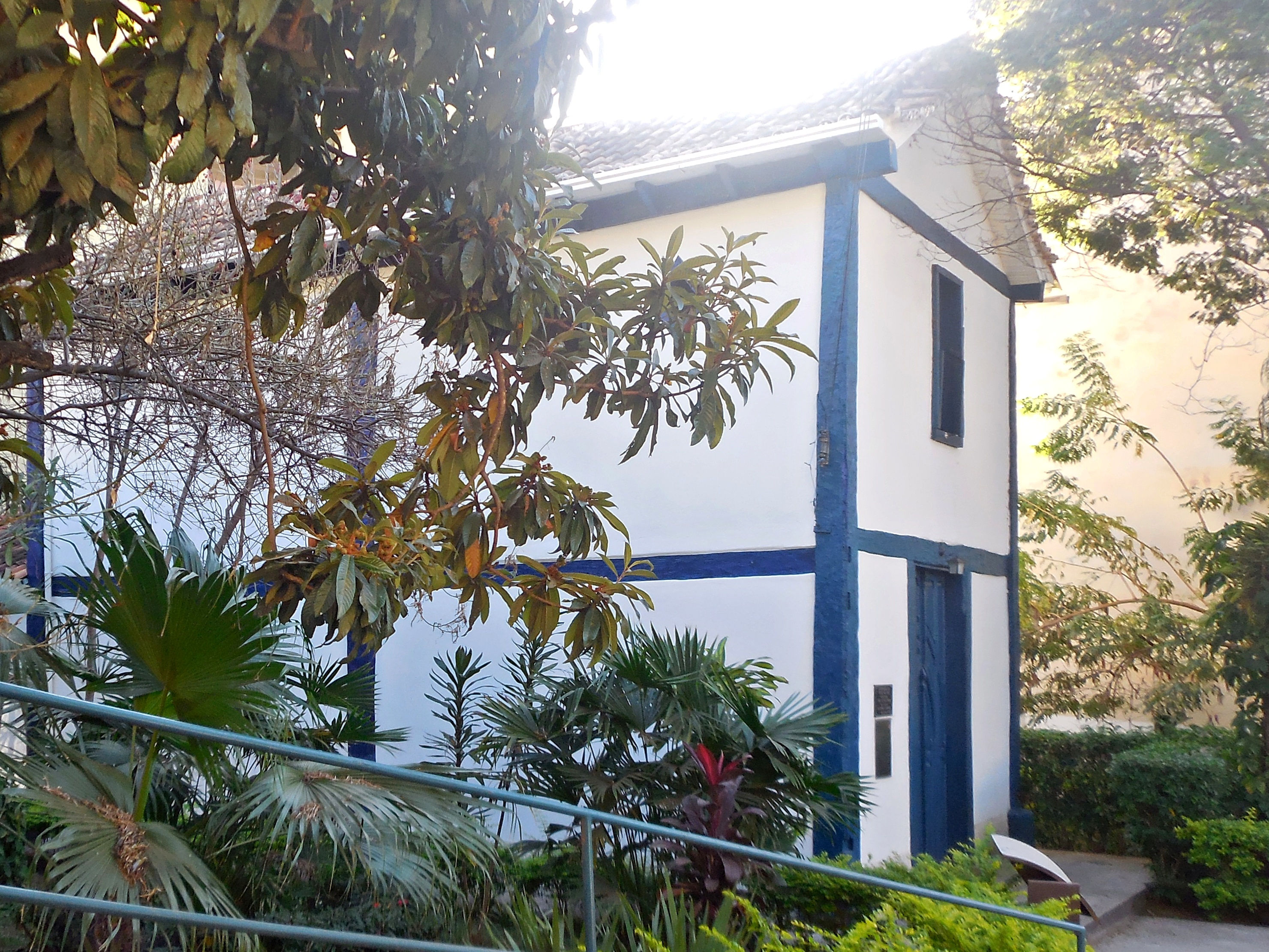 Partial view of the Saint John Church, in Caratinga, Minas Gerais, Brazil.